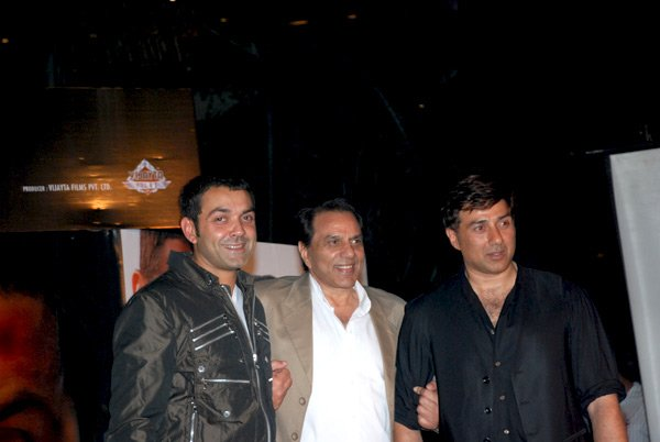 Audio release of Chamku